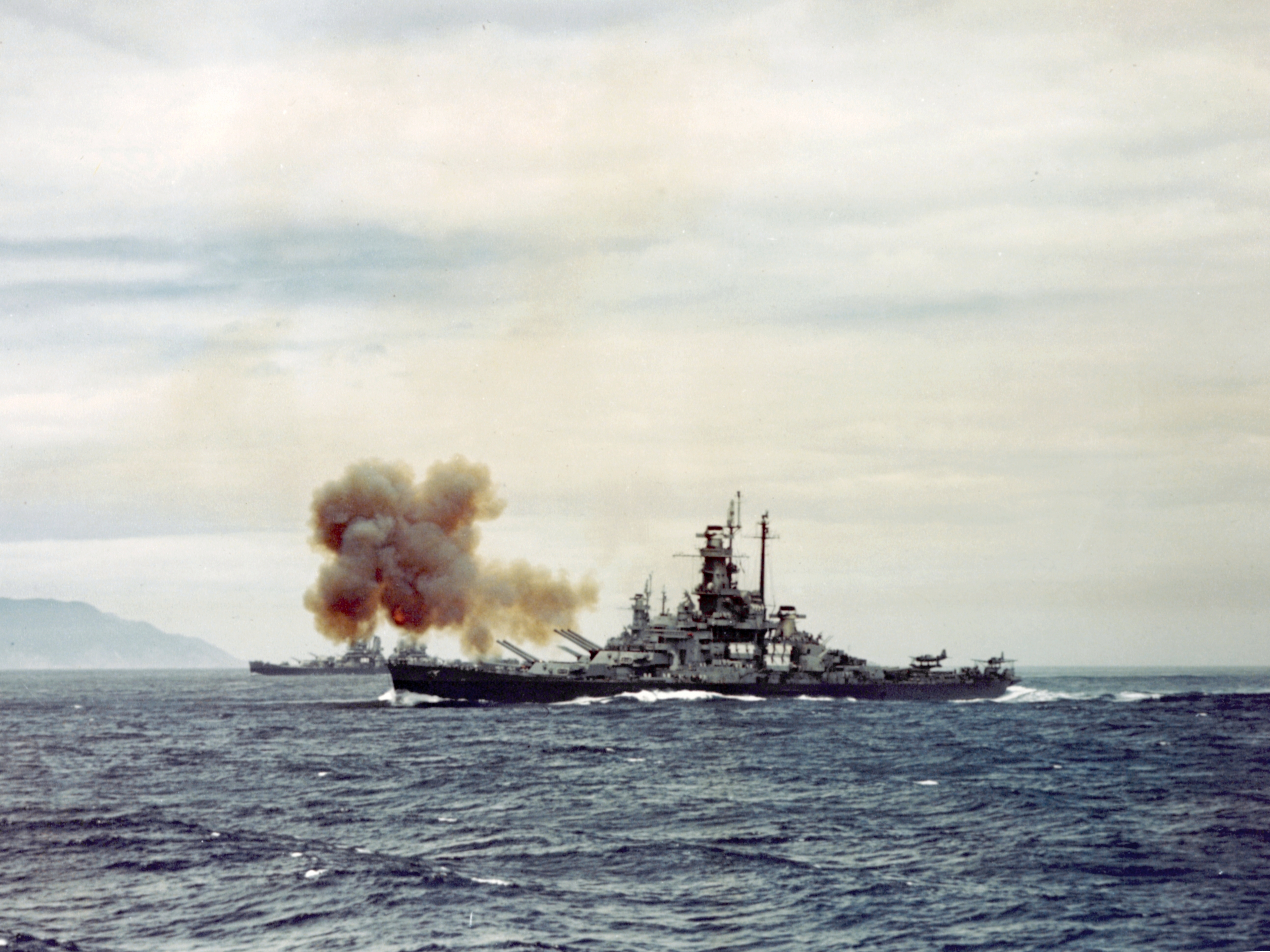 Bombardment of Kamaishi, Japan, 14 July 1945: The U.S. Navy battleship USS Indiana (BB-58) fires a salvo from her forward 16"/45 guns at the Kamaishi plant of the Japan Iron Company, 400 km north of Tokyo. A second before, USS South Dakota (BB-57), from which this photograph was taken, fired the initial salvo of the first naval gunfire bombardment of the Japanese Home Islands. The superstructure of USS Massachusetts (BB-59) is visible directly behind Indiana. The heavy cruiser in the left center distance is either USS Quincy (CA-71) or USS Chicago (CA-136). Due to the Measure 22 camouflage, the cruiser is probably Quincy, as Chicago is only known to have been painted in Measure 21.